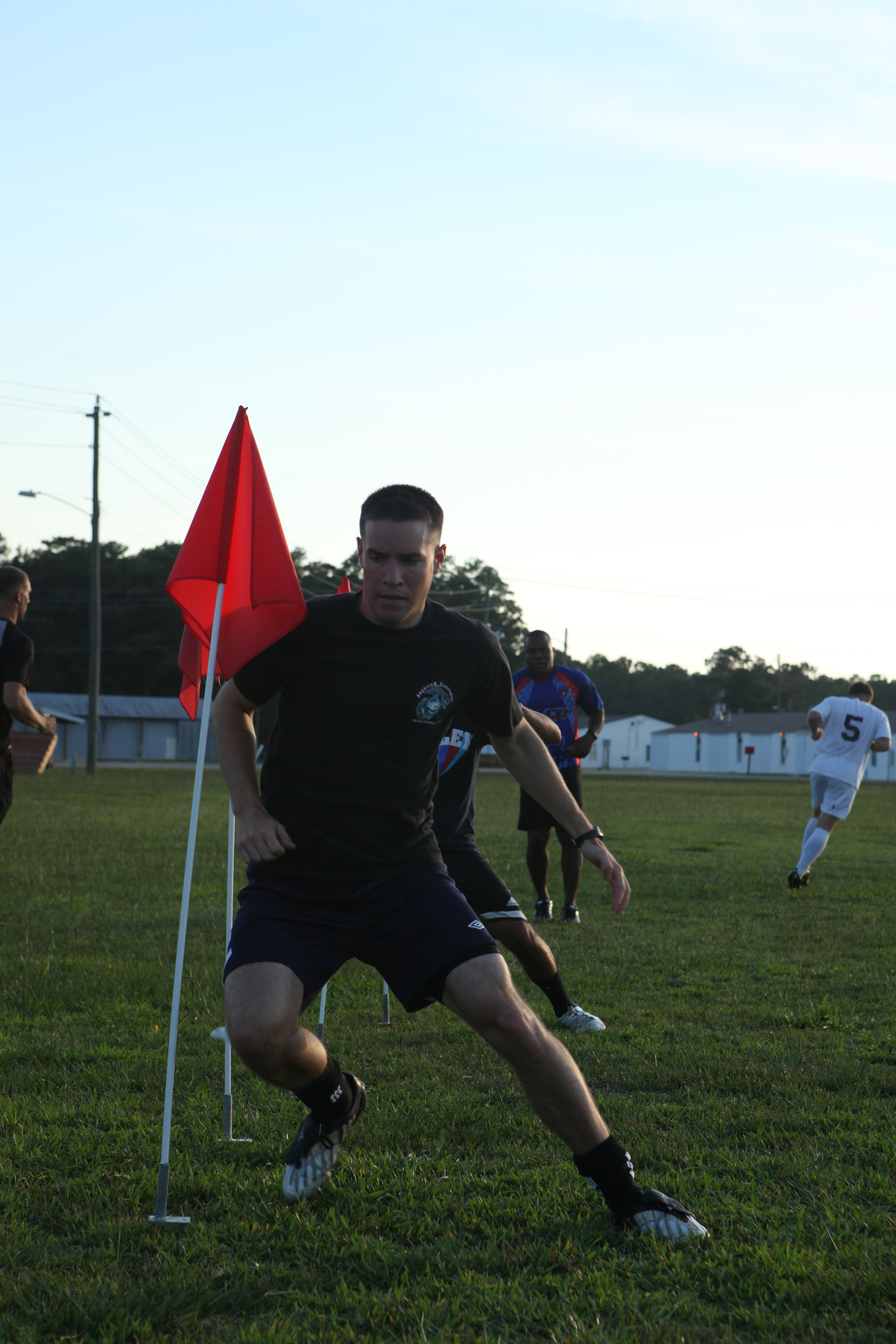 Marines and sailors perform the “in and out” agility drill during the Camp Lejeune Marines’ soccer tryouts at the soccer field aboard Camp Johnson, Aug. 10. The team, the official Marine Corps Base Camp Lejeune soccer team, will play in the Onslow Classic Soccer Association from September through November in a 12-game season, along with various tournaments.